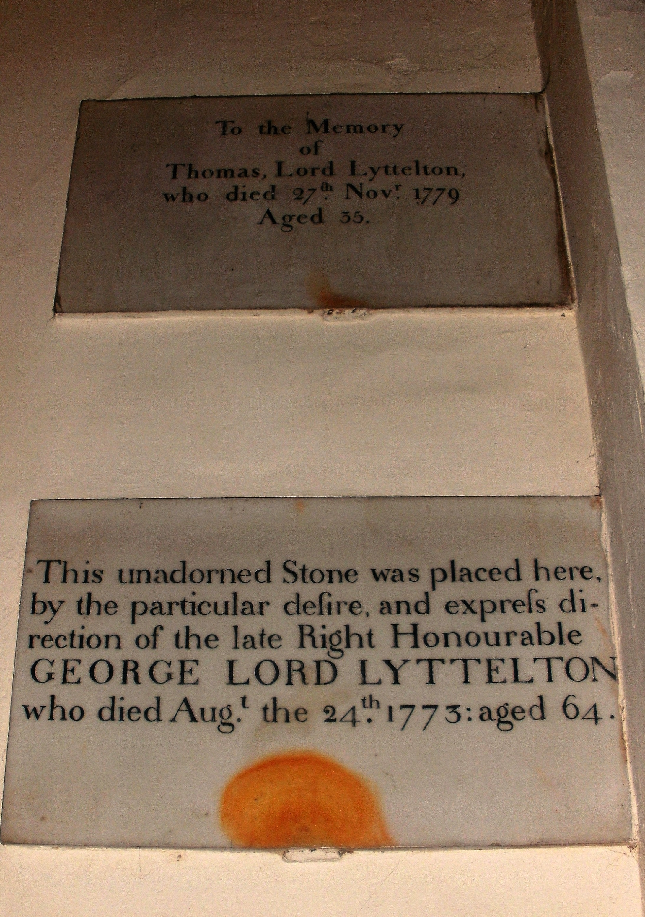 Hagley, Worcestershire, St John the Baptist Church - interior, memorials to Thomas Lyttelton, 2nd Baron Lyttelton (1744–1779) and George Lyttelton, 1st Baron Lyttelton (1709–1773), the two barons Lyttelton of the 1756 creation of the title